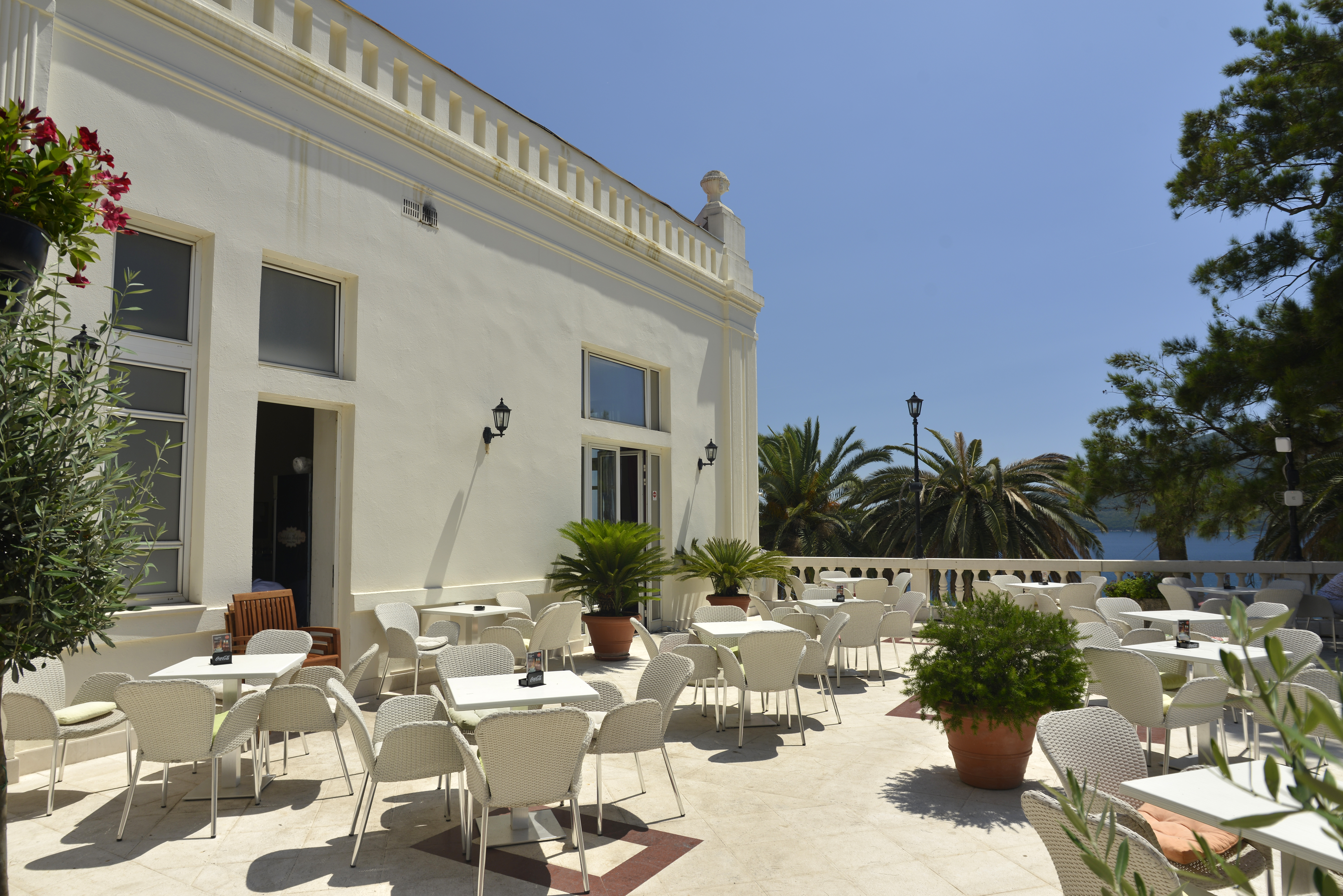 Restaurant on the hotel terrace on the seaside